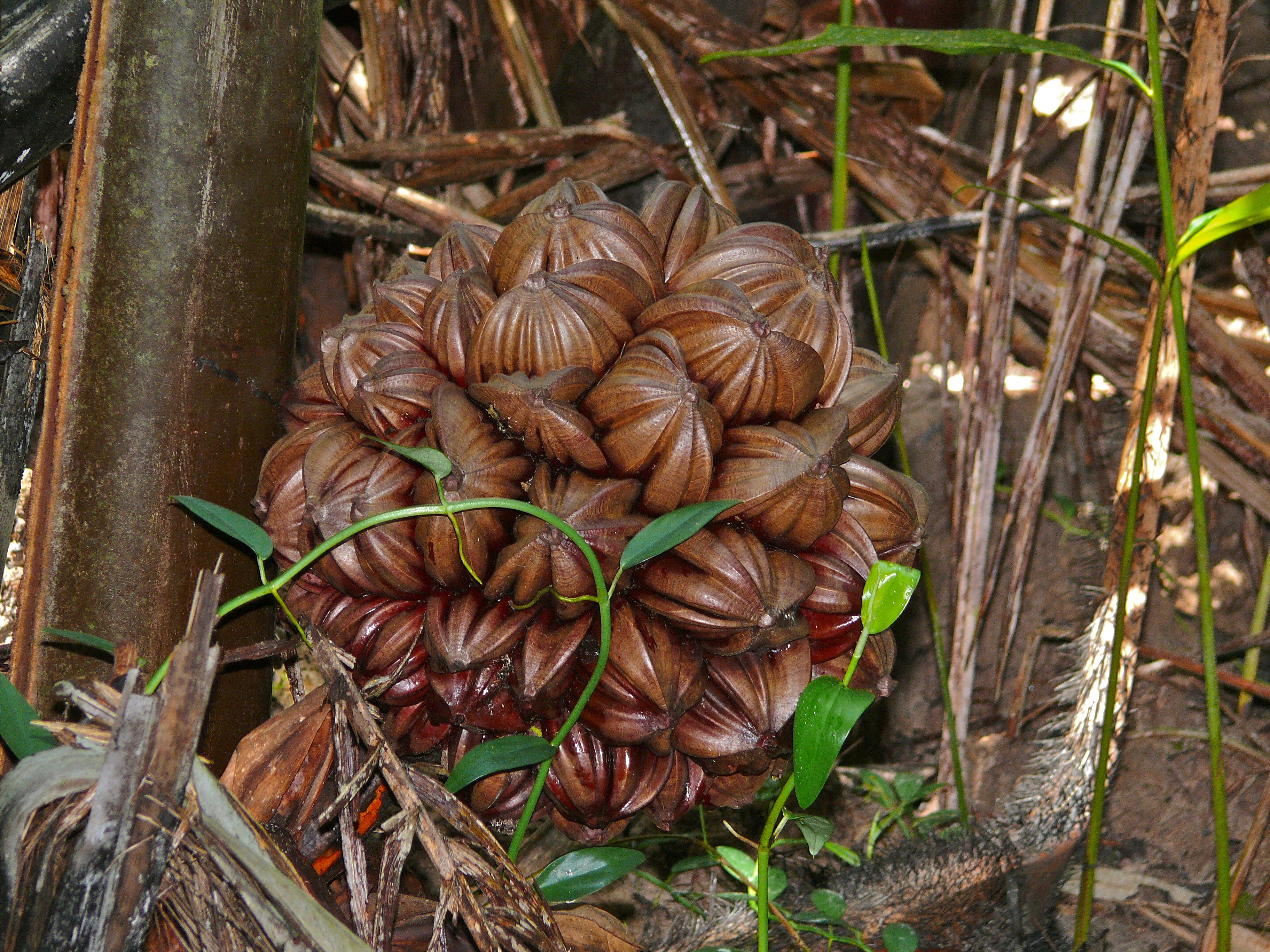 Cluster of Nipa Palm Fruits (Nypa fruticans) Similajau NP, Sarawak, Malaysia